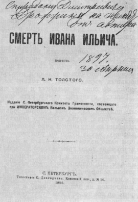 Scan of the title page of an 1895 edition of The Death of Ivan Ilyich